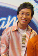 Vietnam Idol